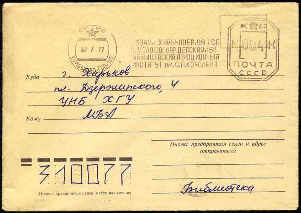 USSR postage meter stamp, a cover, Kuibyshev Aviation Institute, Kuibyshev (now Samara), 4 kop., July 7, 1977.